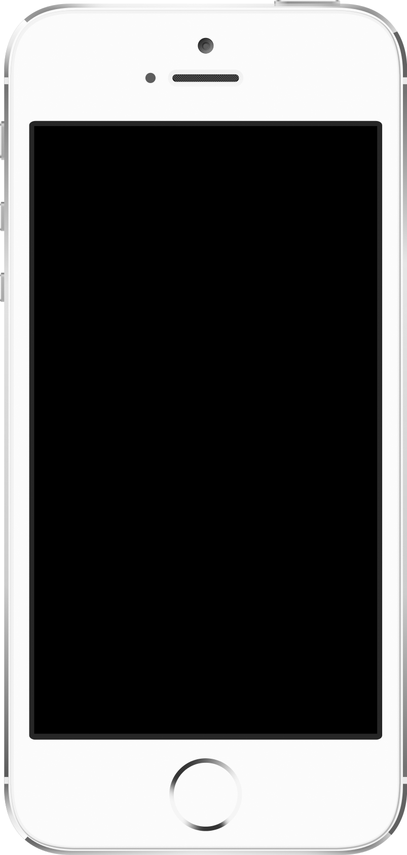 A render of a first-generation iPhone SE in silver color.